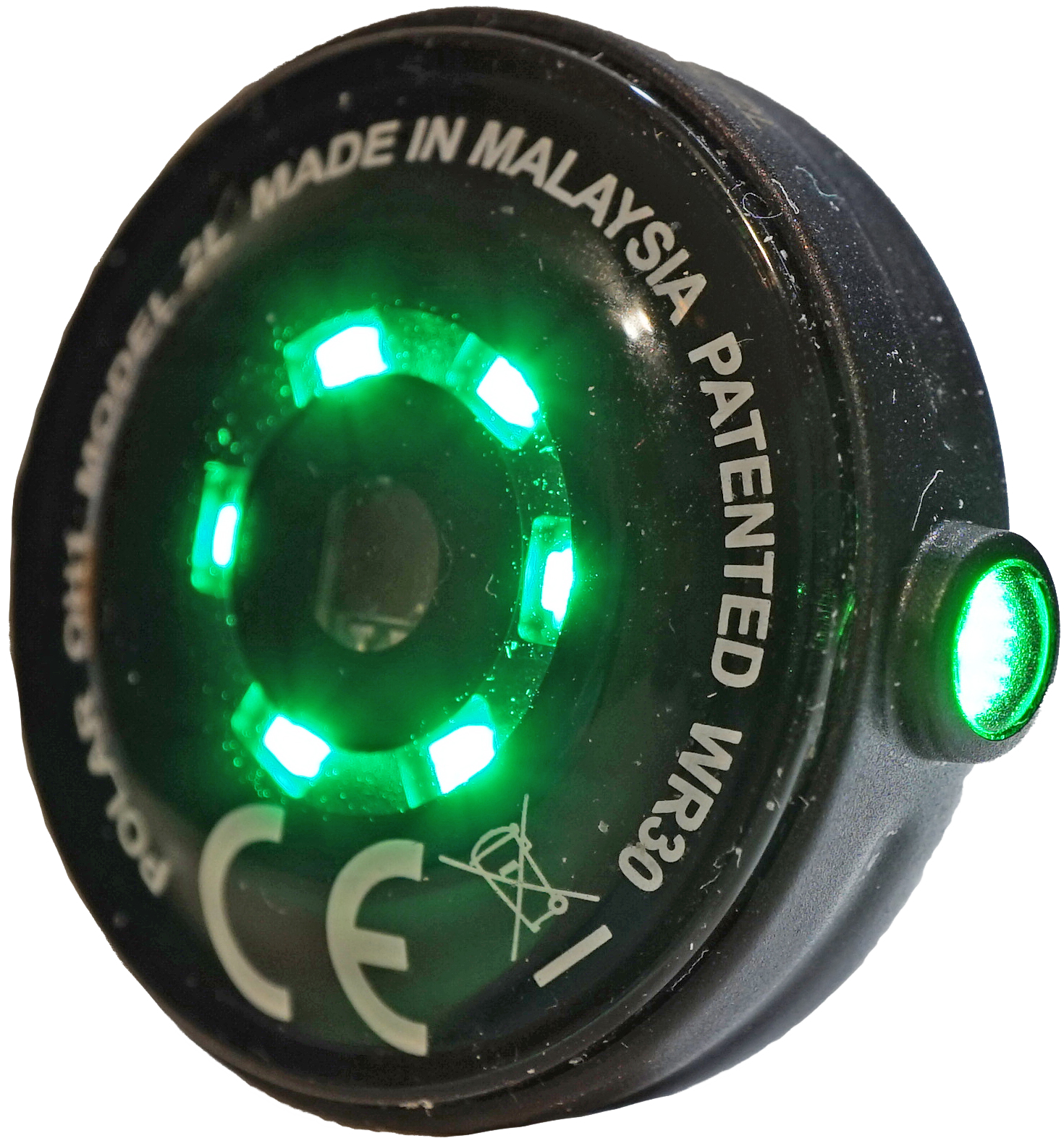 Polar OH1, an optical sensor for measuring heart rate from arm.